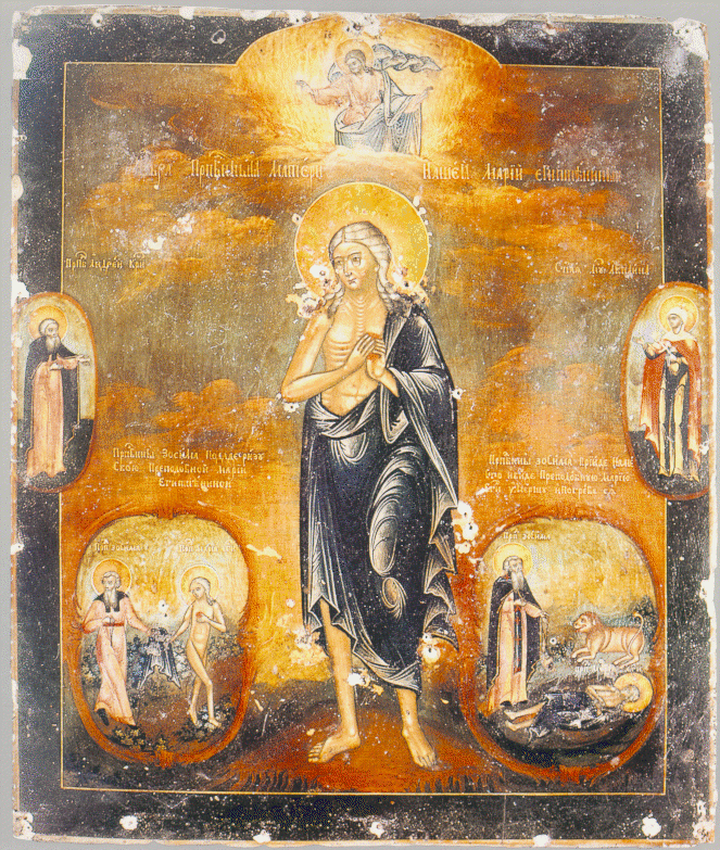 Russian icon of St. Mary of Egypt. Kuopio Orthodox Church Museum.